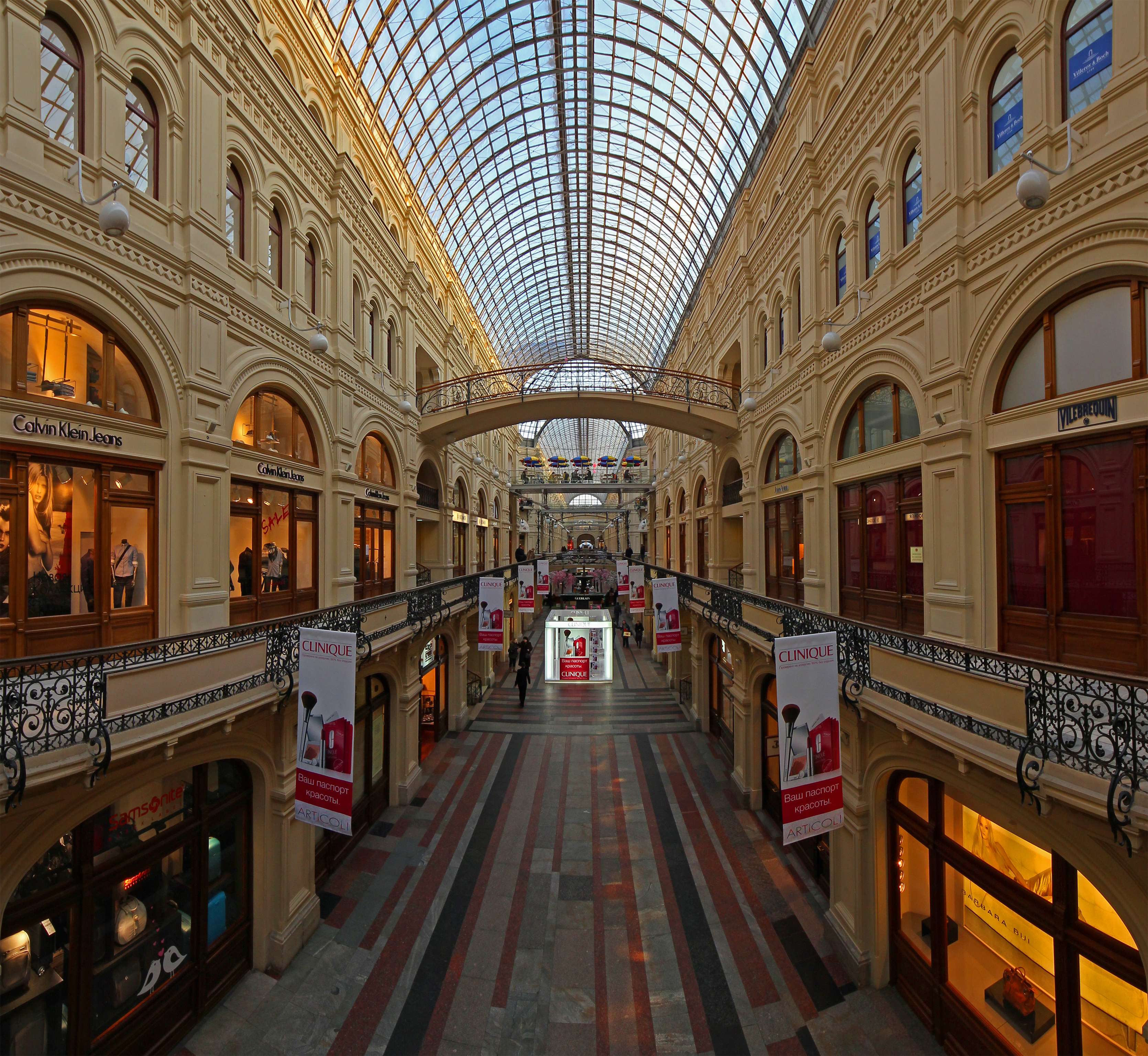 GUM (Main Universal Store) in Moscow, middle line, view from second floor. This image is stitched of 4 single shots using PTGui.